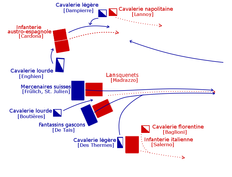 French translation of movement of troups towards the end of the Battle of Ceresole; French troops in blue, Imperial troops in red.